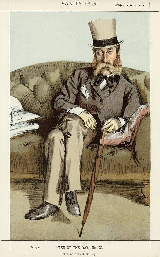 Caricature of George Whyte-Melville (1821-1878). Caption read "The novelist of Society".